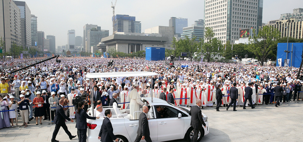 Pope Francis in Gwangwhamun Square to beatify 123 Korean Martyrs on 16 August 2014.